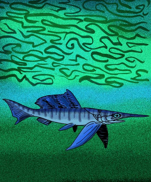 Reconstruction of the Middle Devonian arthrodire placoderm, Carolowilhelmina geognostica, from what is now Spain